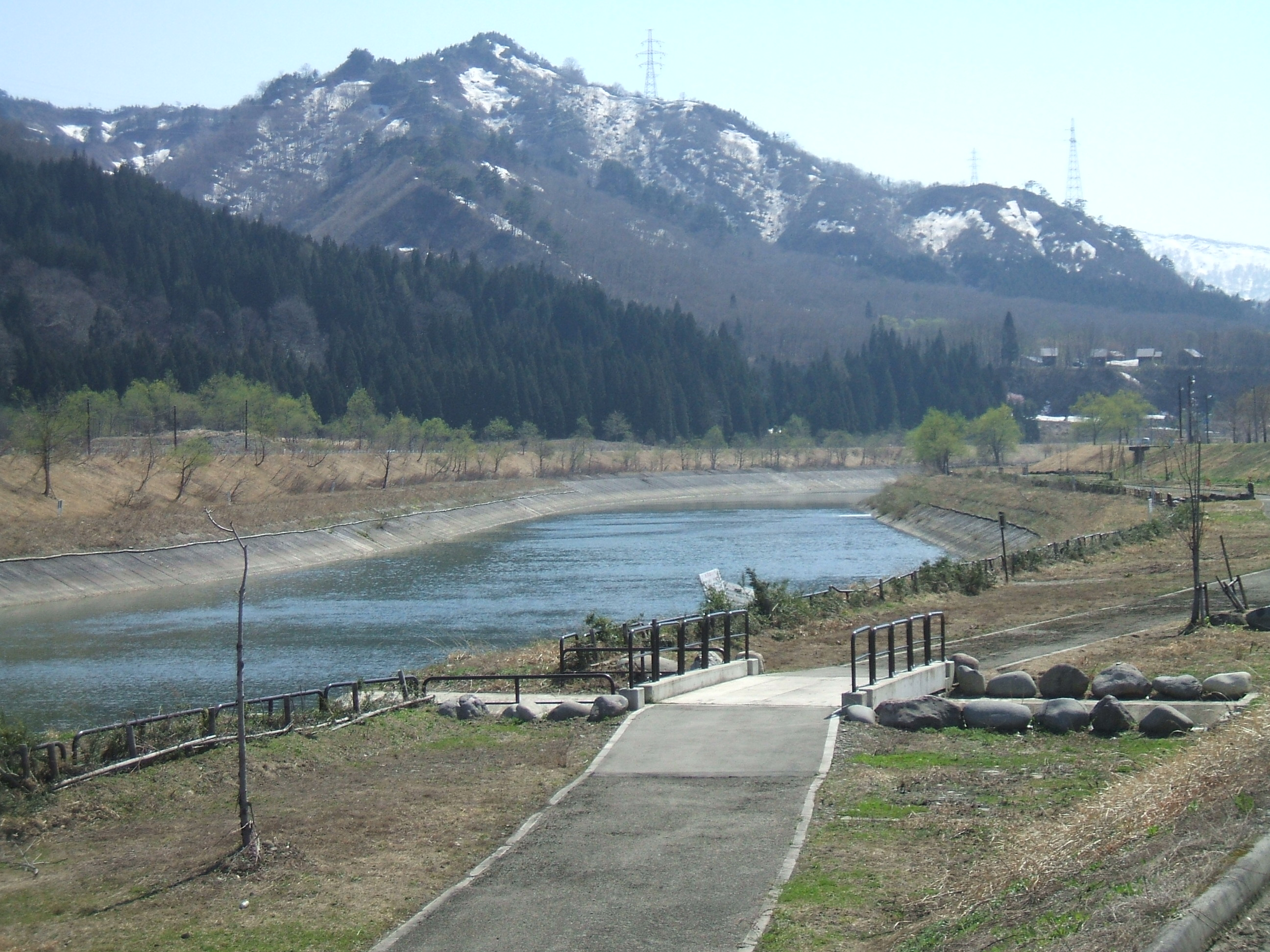 Landscape of Tadamigawa-River. It was taken at Tadami, Tadami, Fukushima.